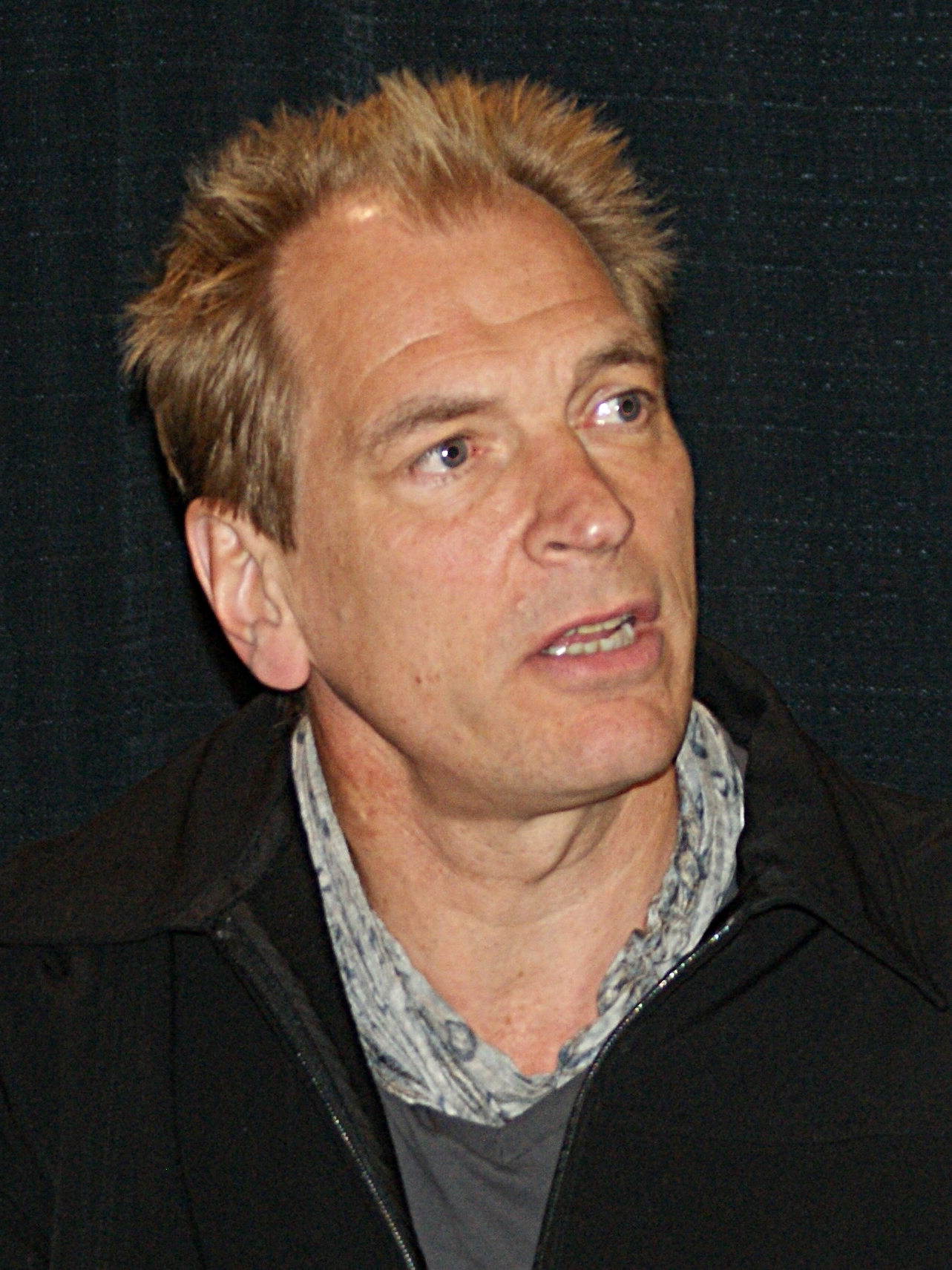 Julian Sands attending the Calgary Comic & Entertainment Expo in BMO Centre, Calgary, Alberta, Canada.